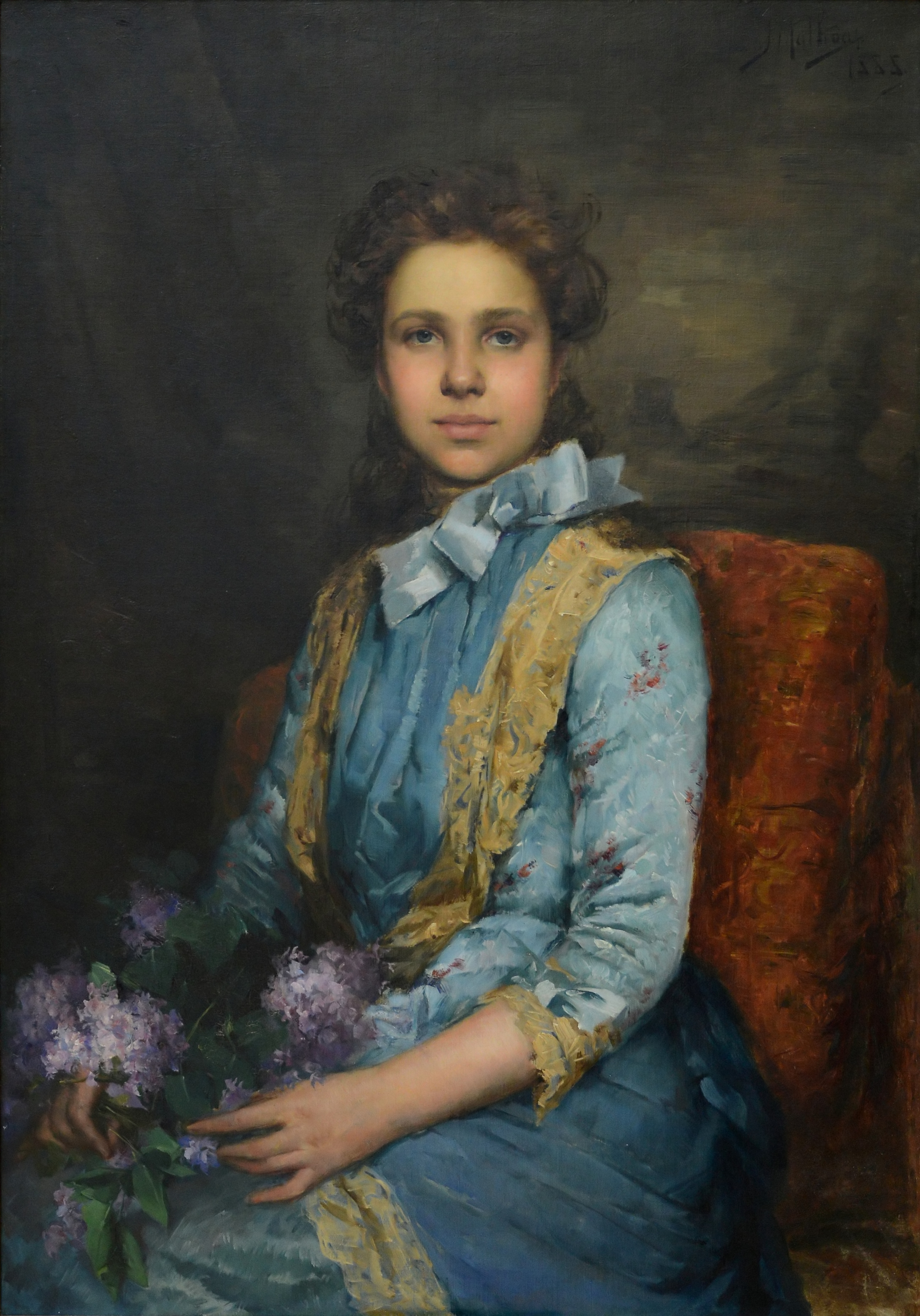 Portrait of Laura Sauvinet (a pupil of the artist), by José Malhoa. Museum José Malhos, Caldas da Rainha, Portugal